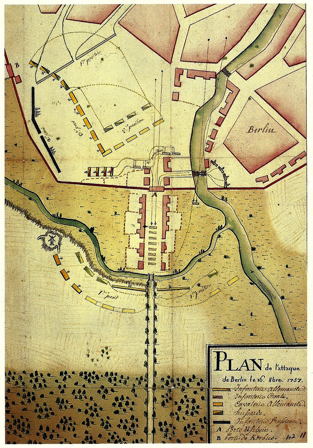 Map of the attack of Berlin on 16th of October 1757 (when Austrian Hussars shortly occupied the Prussian)